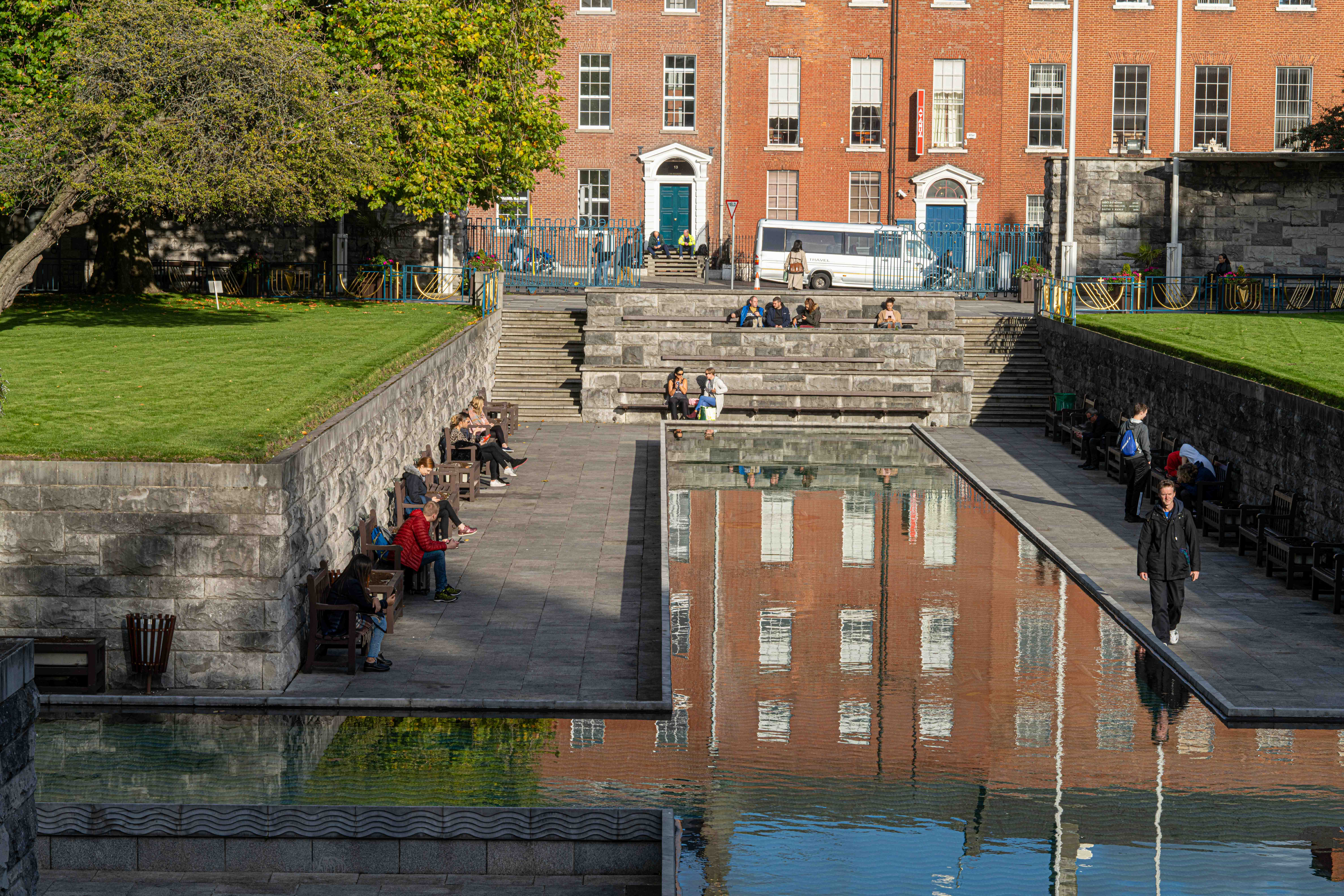 . Garden of Remembrance at Parnell Square in Dublin, Ireland